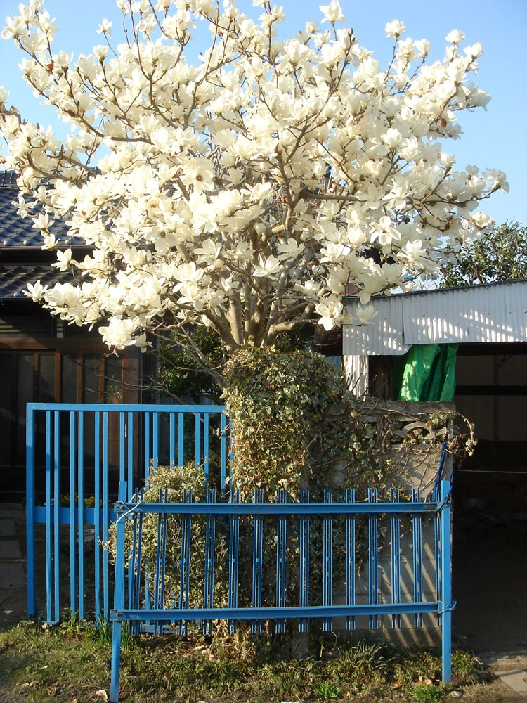 A flowering Magnolia tree in Japan. This picture was posted without a clear indication of the species but it looks very much like Magnolia denudata. There is a slight chance however that the plant is in fact a white-flowered Magnolia × soulangeana.